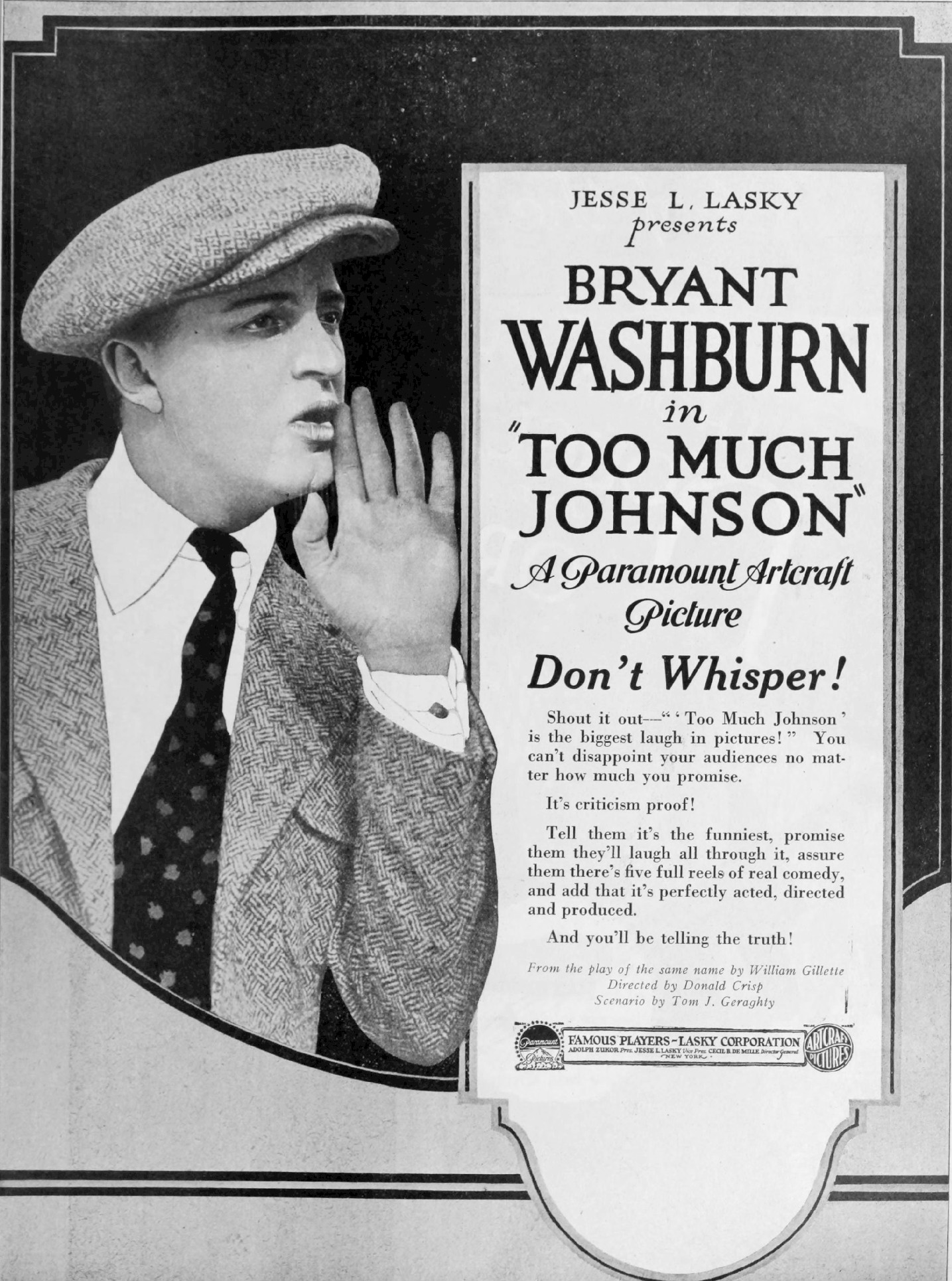 Advertisement for the American comedy film Too Much Johnson (1919) from the January 24, 1920 issue ofMotion Picture News.